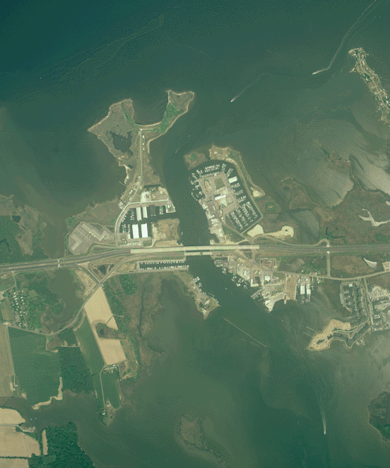 Aerial photograph of Kent Narrows in Maryland from NOAA National Ocean Service. Inage has been cropped, rotated, and converted to PNG fornat